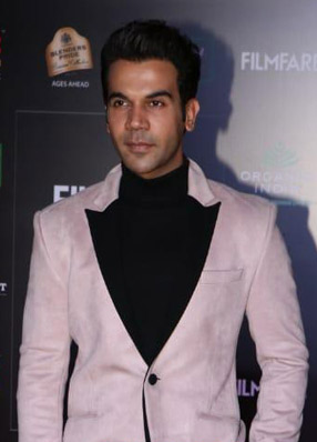 Rajkumar Rao at the Filmfare Glamour and Style Awards 2019